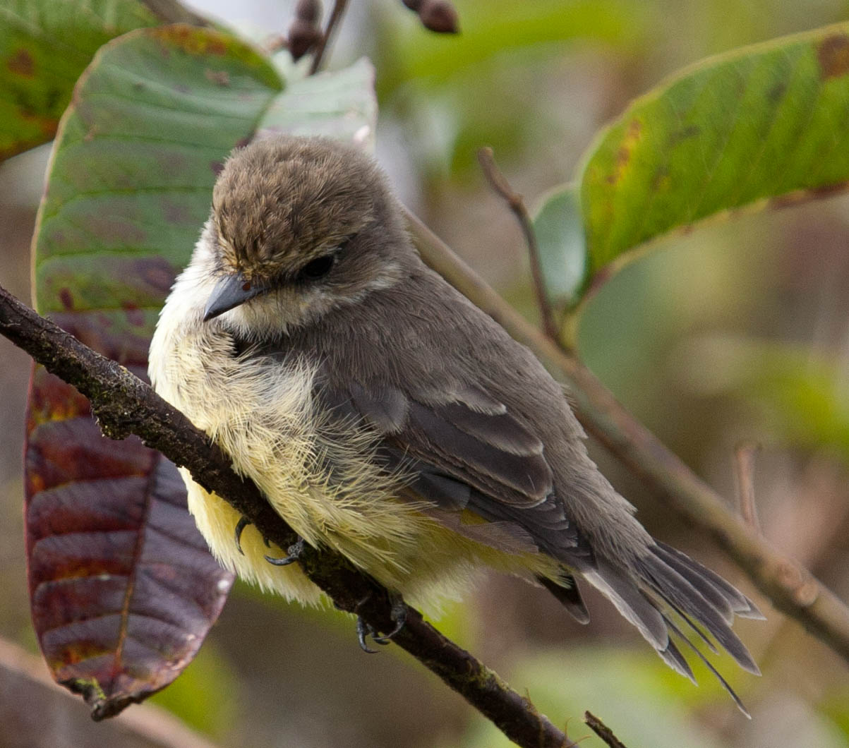 A female Darwin's Flycatcher Pyrocephalus nanus on the Galápagos Islands.